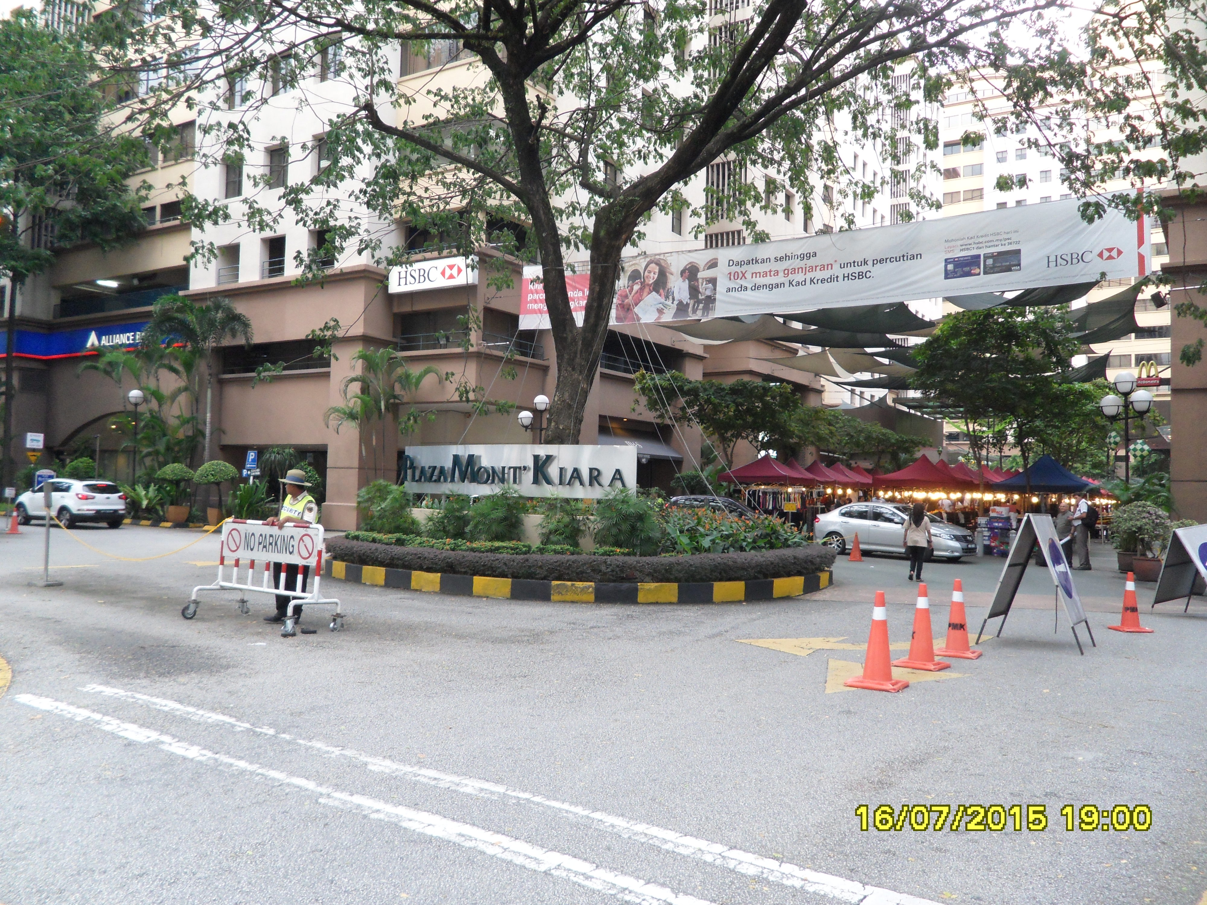 Plaza Mont Kiara sign board, Mont Kiara, Kuala Lumpur